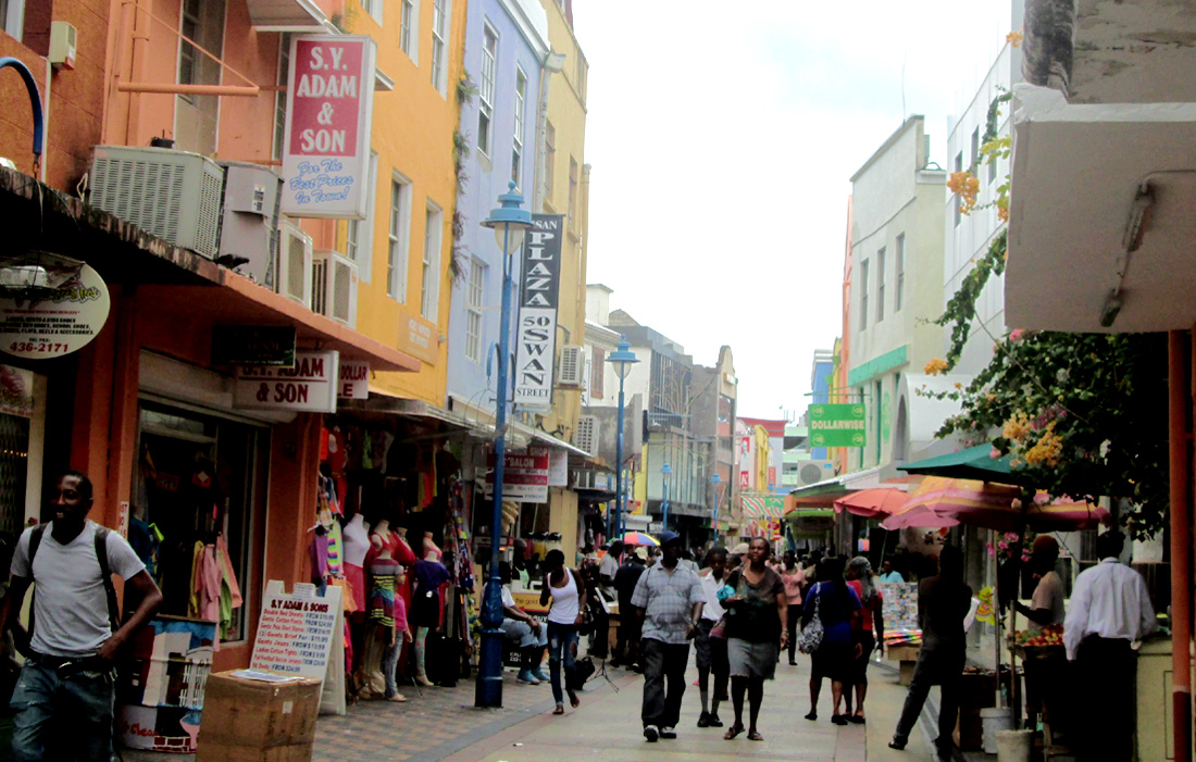 Swan Street, a shopping street in downtown Bridgetown, Barbados. It is for the locals, not tourists. It was convenient that one store has the address in big letters on its sign.